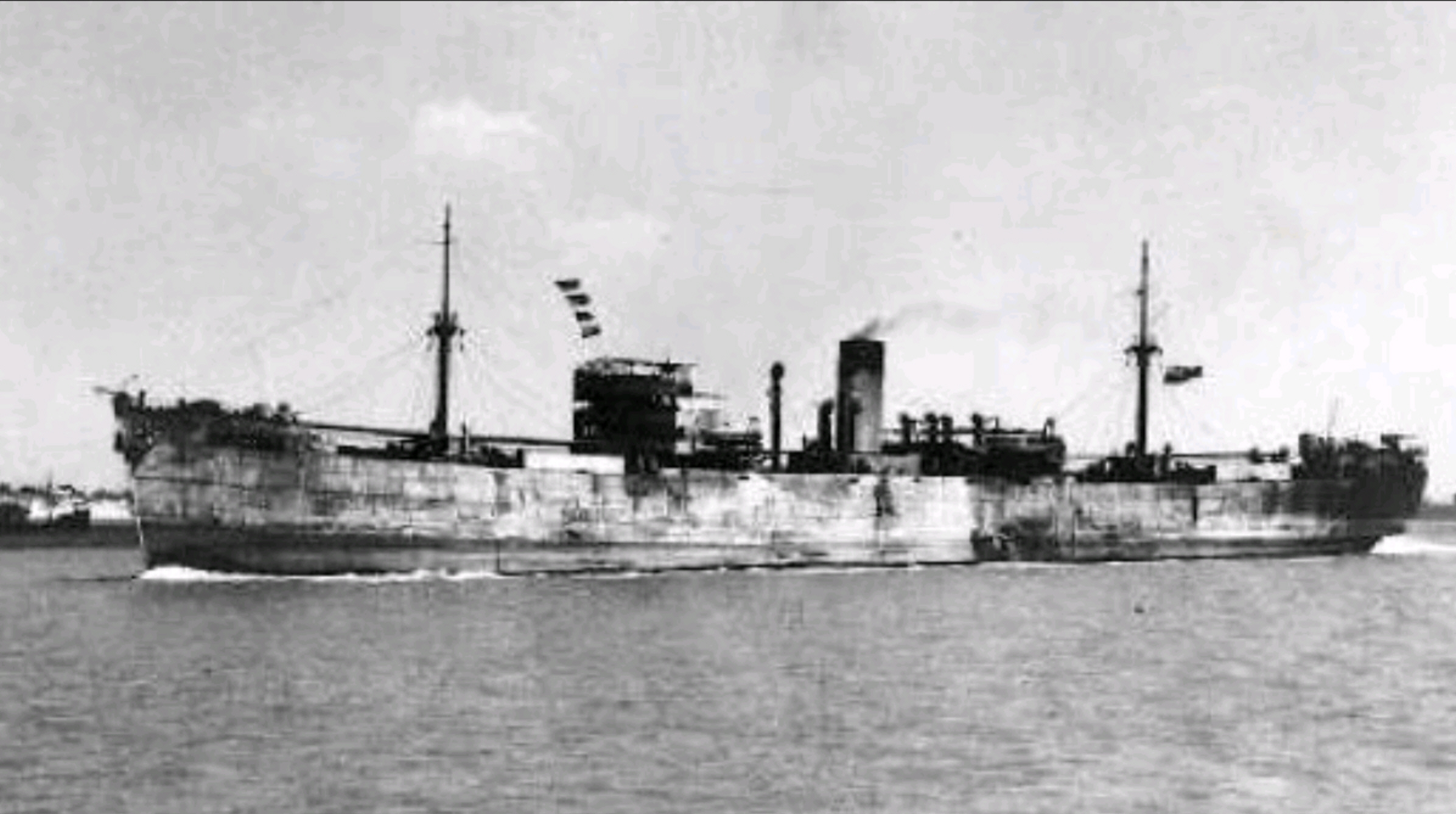 6,136 GRT cargo steamship Broompark, built in 1939 by Lithgows at Port Glasgow and sunk in 1942 by U-552 in the North Atlantic Build. Number: 166988 MMSI Number: --- Callsign: - Length: 132 m Beam: 8 m